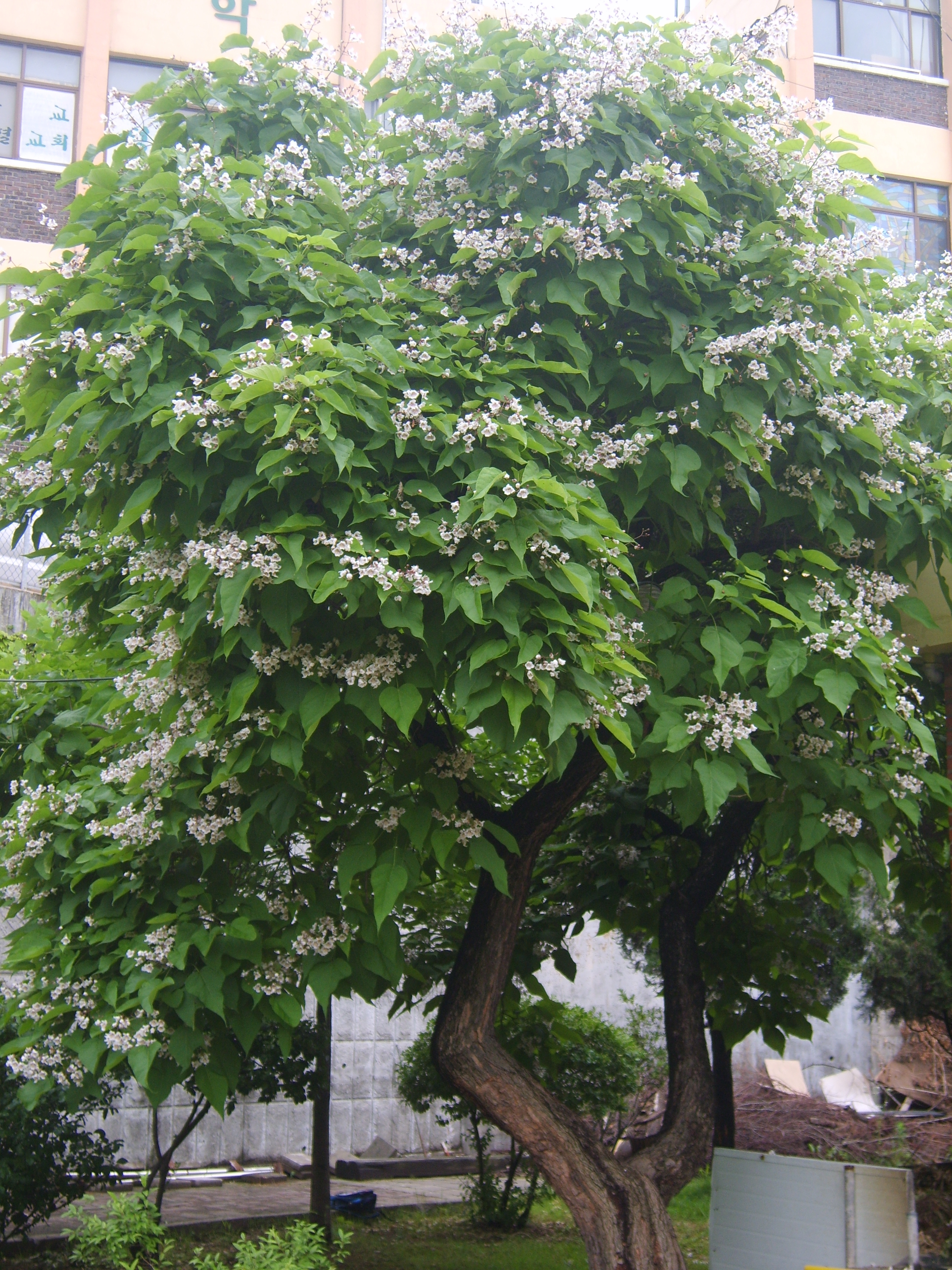 Catalpa bignonioides in Bupyung, Korea